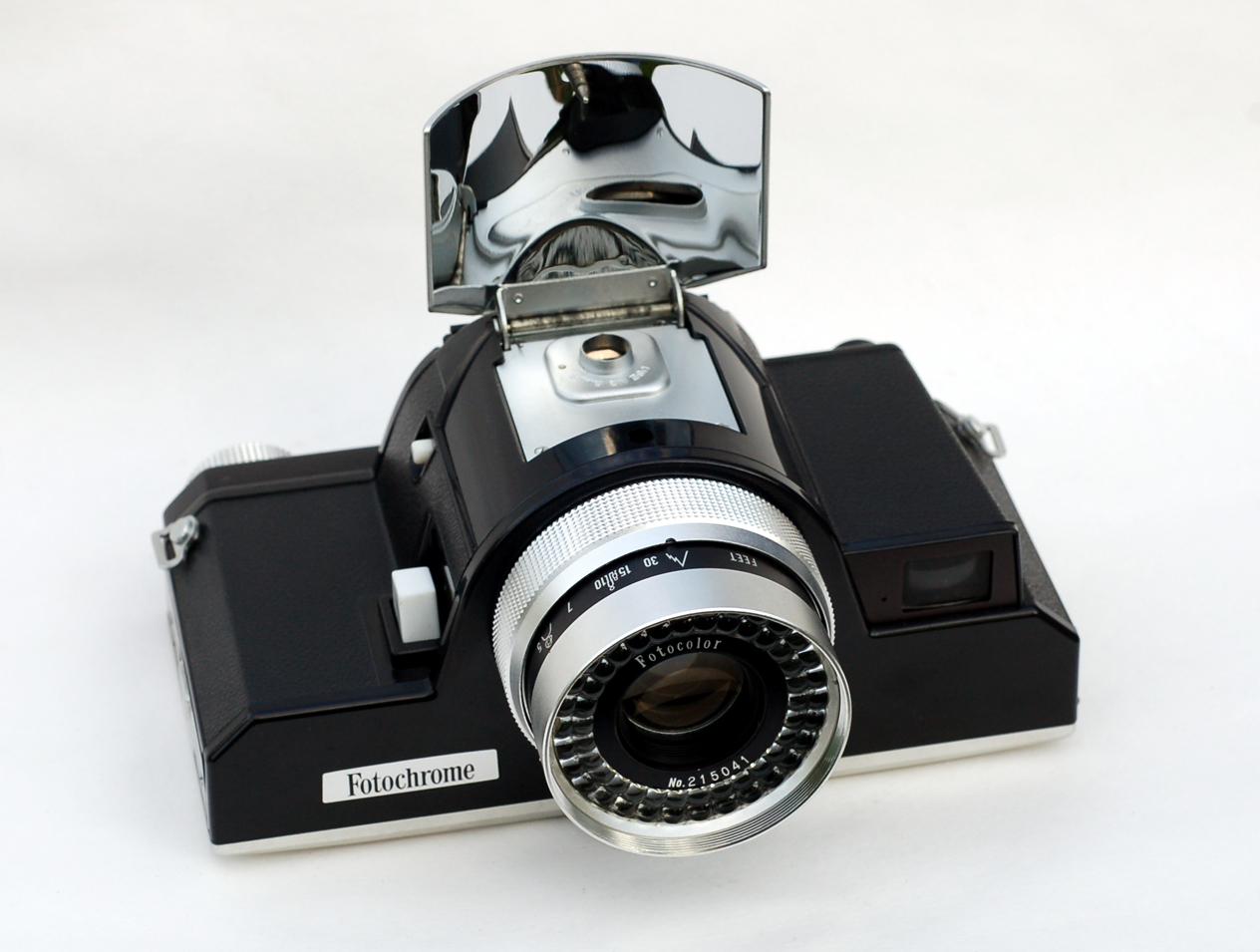 Made by Petri Camera (Japan) c1965, the Fotochrome was a failed venture because it required the user to obtain a proprietary film. Behind the lens is a mirror which reflects the image onto the film plane (parallel to the ground), which explains the camera's unusual design. The pop-up flash reflector may seem small, but this camera is much larger than it may appear in the photo. Because "The Remarkable Fotochrome Color System" (as it's called on the box) was such a dud, these cameras can be found brand new in the original packaging, for a low, low price!